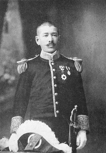 Hironaga Kawabe